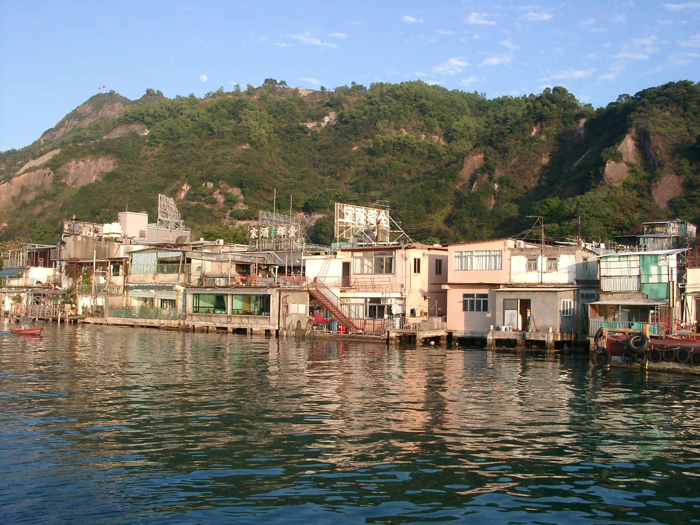 A village and restaurants in Lei Yue Mun, Kowloon, Hong Kong Taken by Ivangrant on 1 Jan 2007.